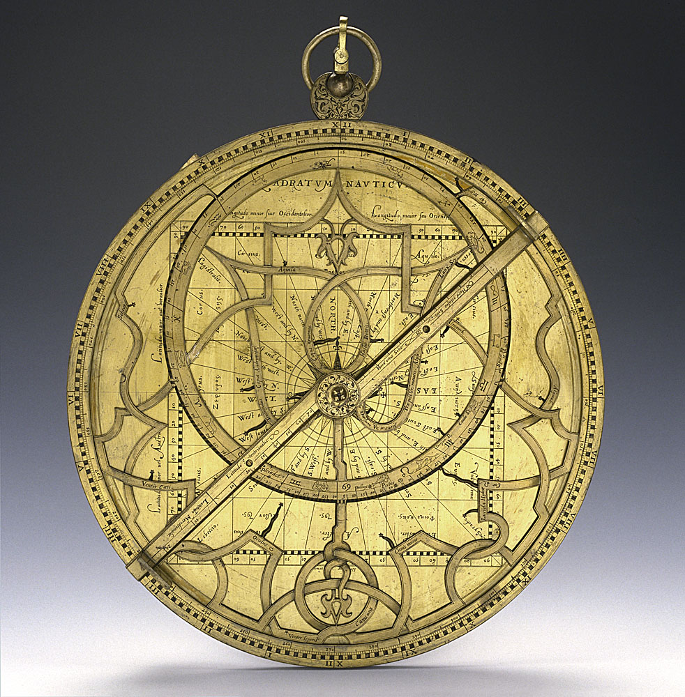 Thomas Geminus: Astrolabe of Thomas Gemini Artist Thomas Geminus (1510–1562) Alternative names Thomas Lambrit; Thomas Lambert; Thomas GeminiDescription engraver and instrument makerDate of birth/death 1510 / 1510 May 1562 / 1562 Location of birth/death Lixhe LondonWork location London (1524–1559); London (1545–1553) Authority control : Q7789970 VIAF: 64350129 ISNI: 0000 0000 2745 6391 ULAN: 500016921 LCCN: n86822615 Oxford Dict.: 10513 WorldCat creator QS:P170,Q7789970 Author Thomas GeminiTitle Astrolabe of Thomas Geminilabel QS:Len,"Astrolabe of Thomas Gemini" label QS:Lit,"Astrolabio di Thomas Gemini"Object type astrolabe Description